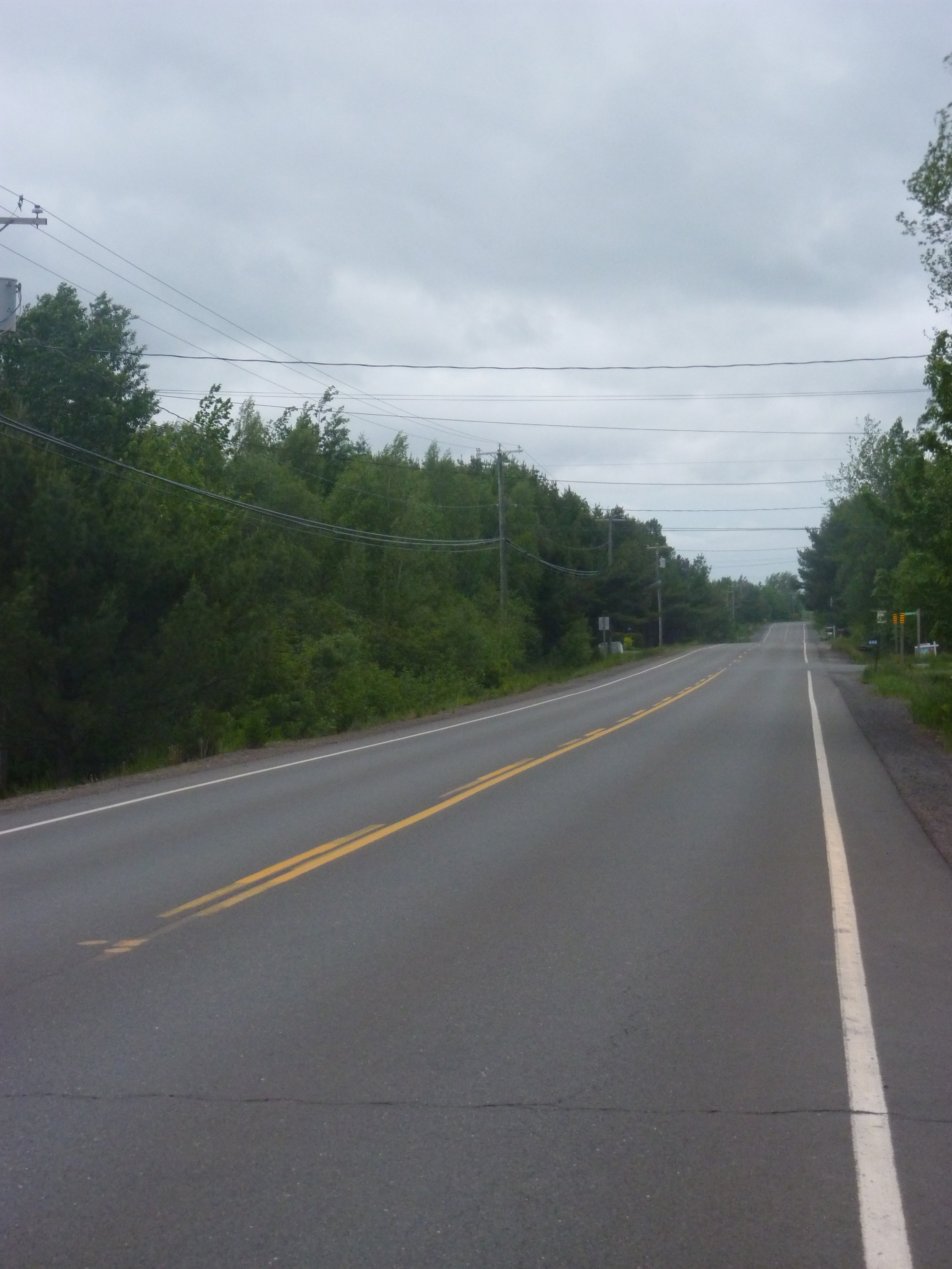 New Brunswick Route 102 at Burton